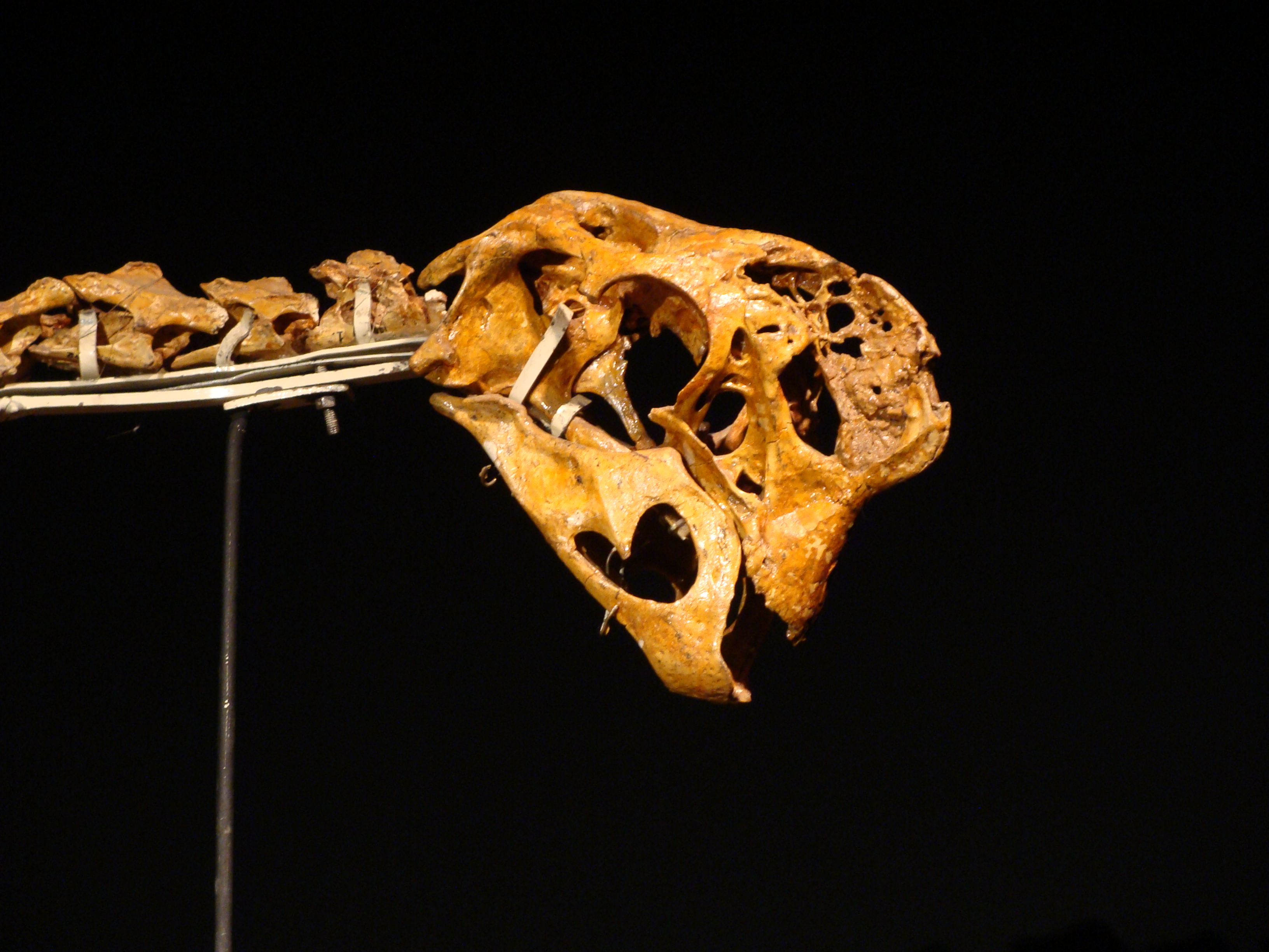 Citipati osmolskae in the exhibition "Dinosaures. Tresors del desert de Gobi" ("Dinosaurs. Treasures of Gobi Desert") in CosmoCaixa, Barcelona.